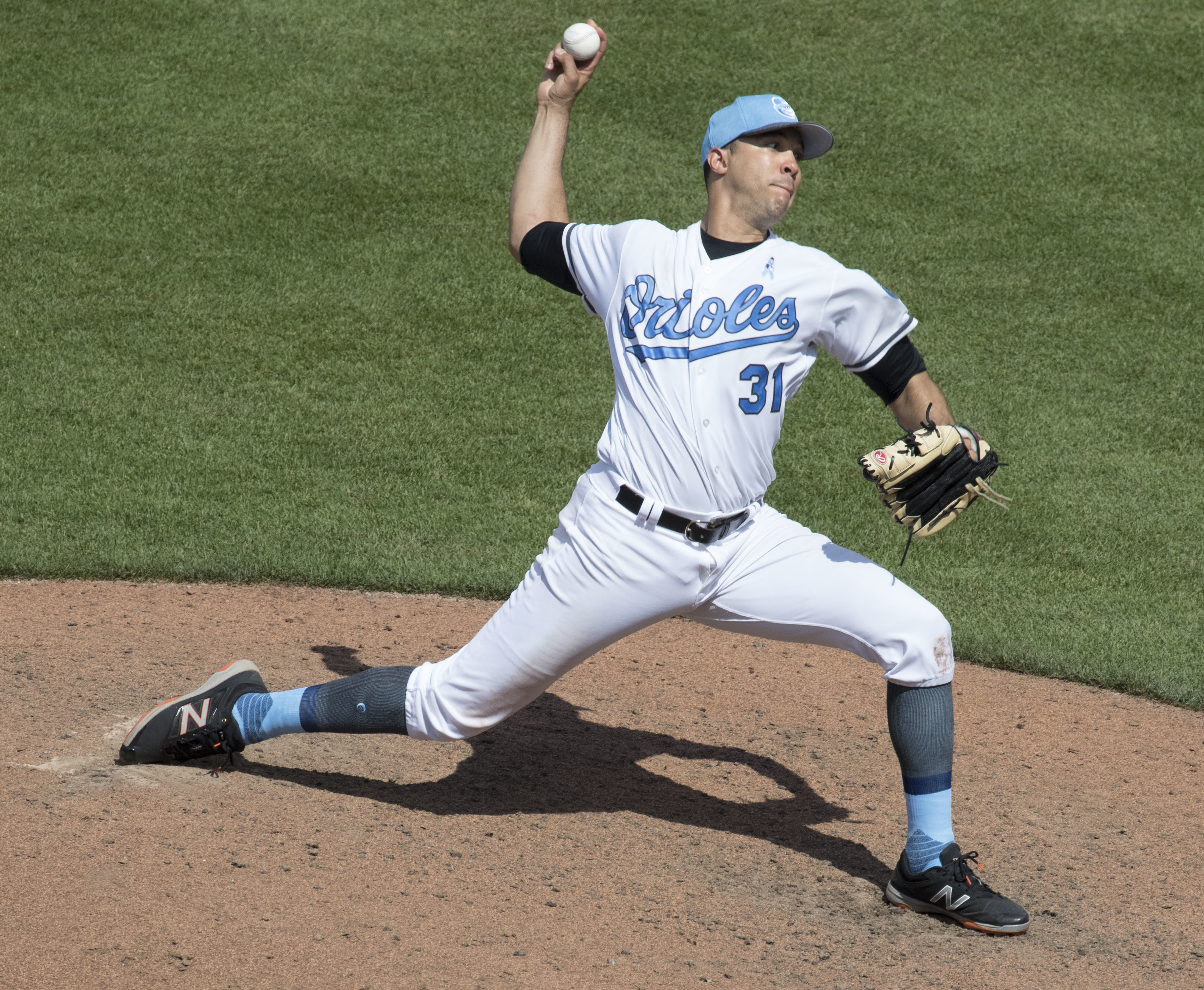 Ubaldo Jimenez of the Baltimore Orioles pitches in a game against the St. Louis Cardinals at Oriole Park at Camden Yards on June 18, 2017 in Baltimore, Maryland.